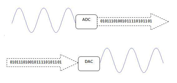 ADC-DAC.jpg